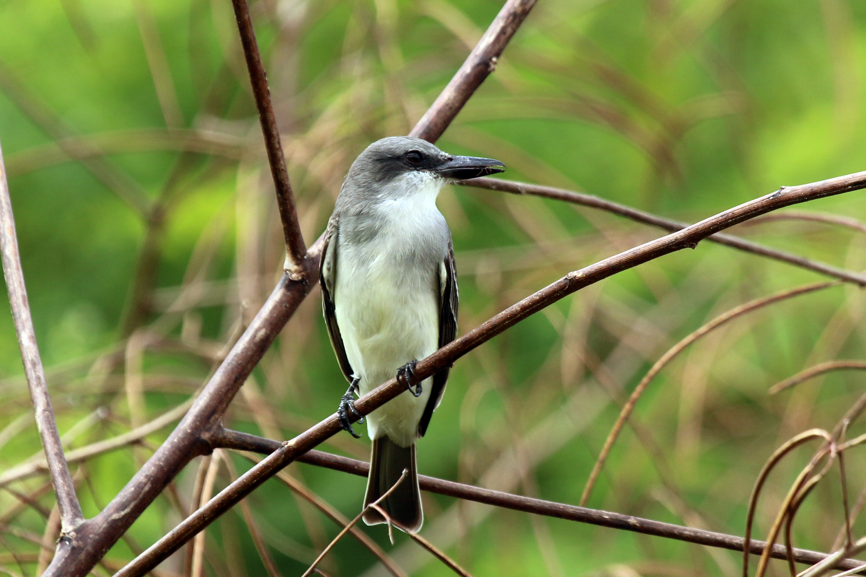 Grey kingbird (Tyrannus dominicensis vorax), Tobago